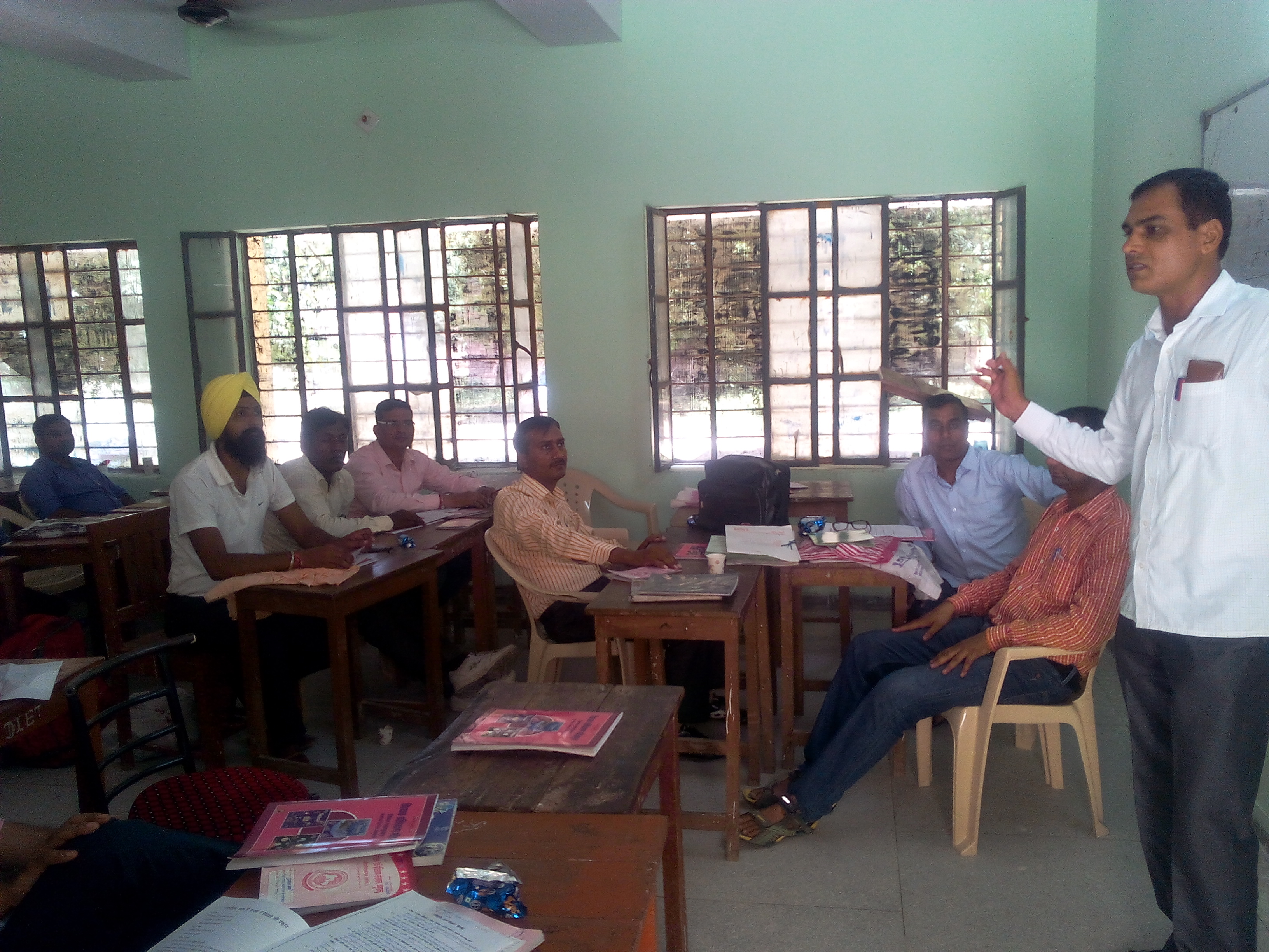 This photo is about a training programme at Diet,Chunawadh, India.